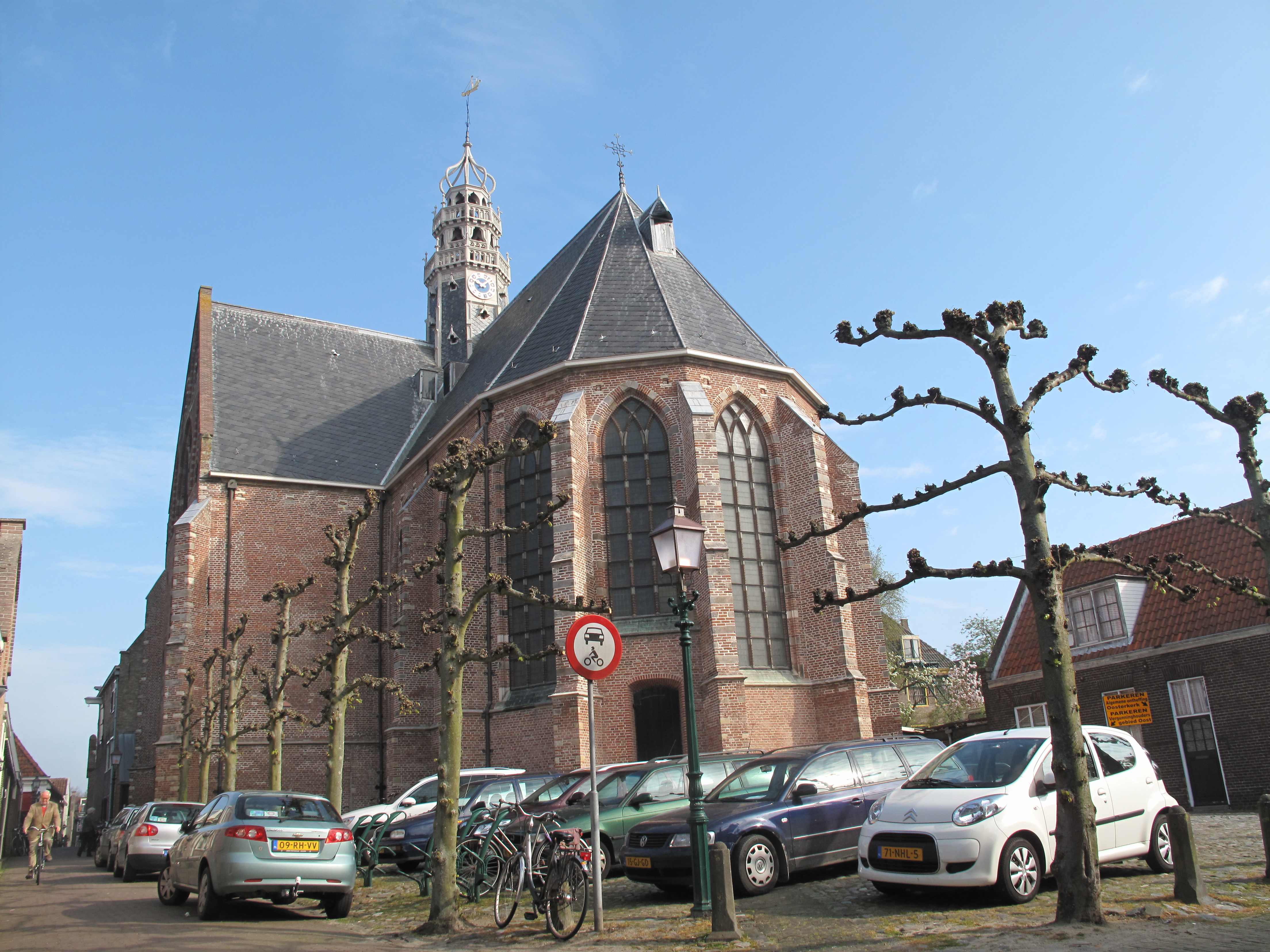 Hoorn, Oosterkerk (Eastern Church)